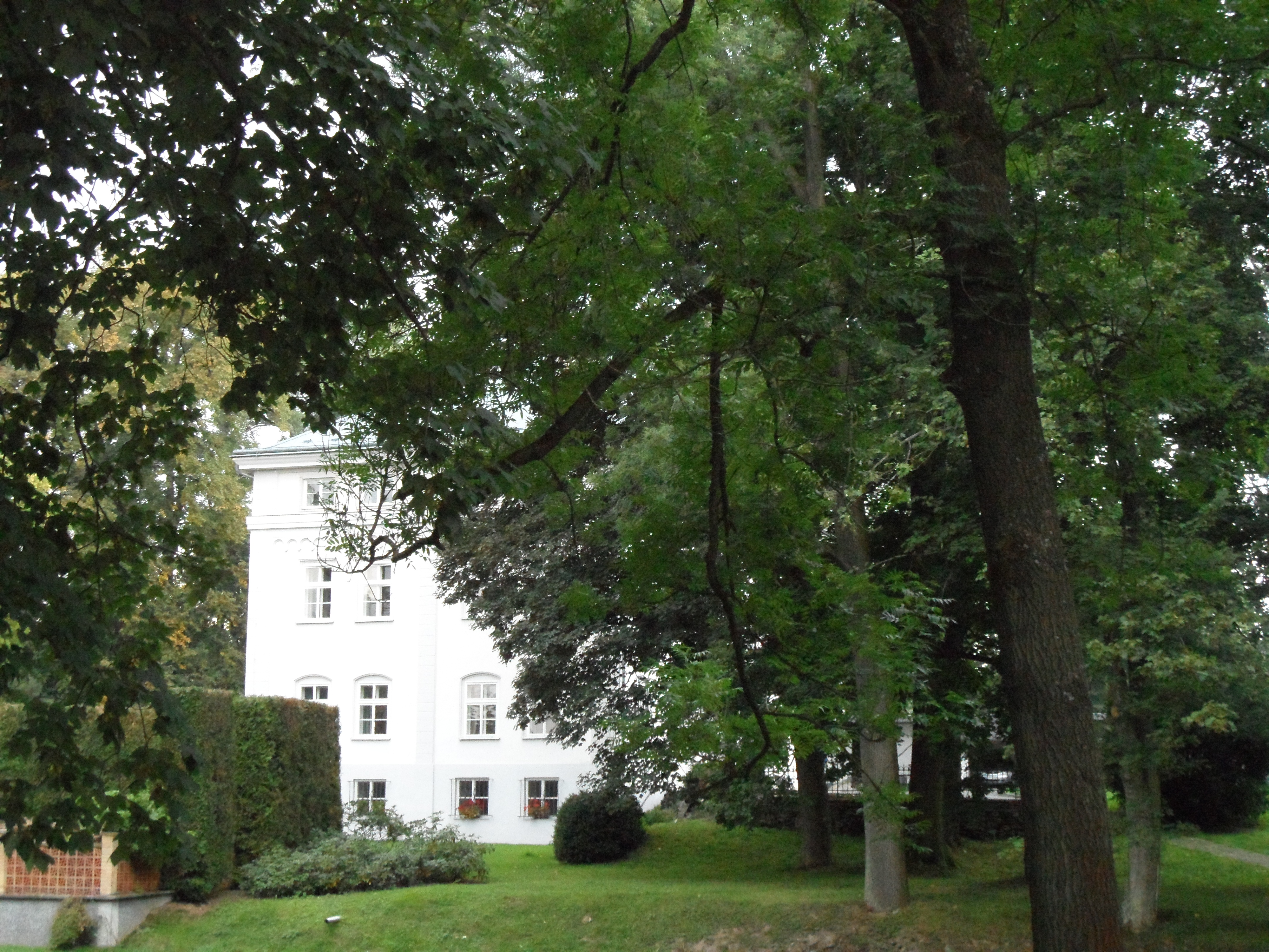 Morány D. Chateau: Semidetail, Kutná Hora District, the Czech Republic.